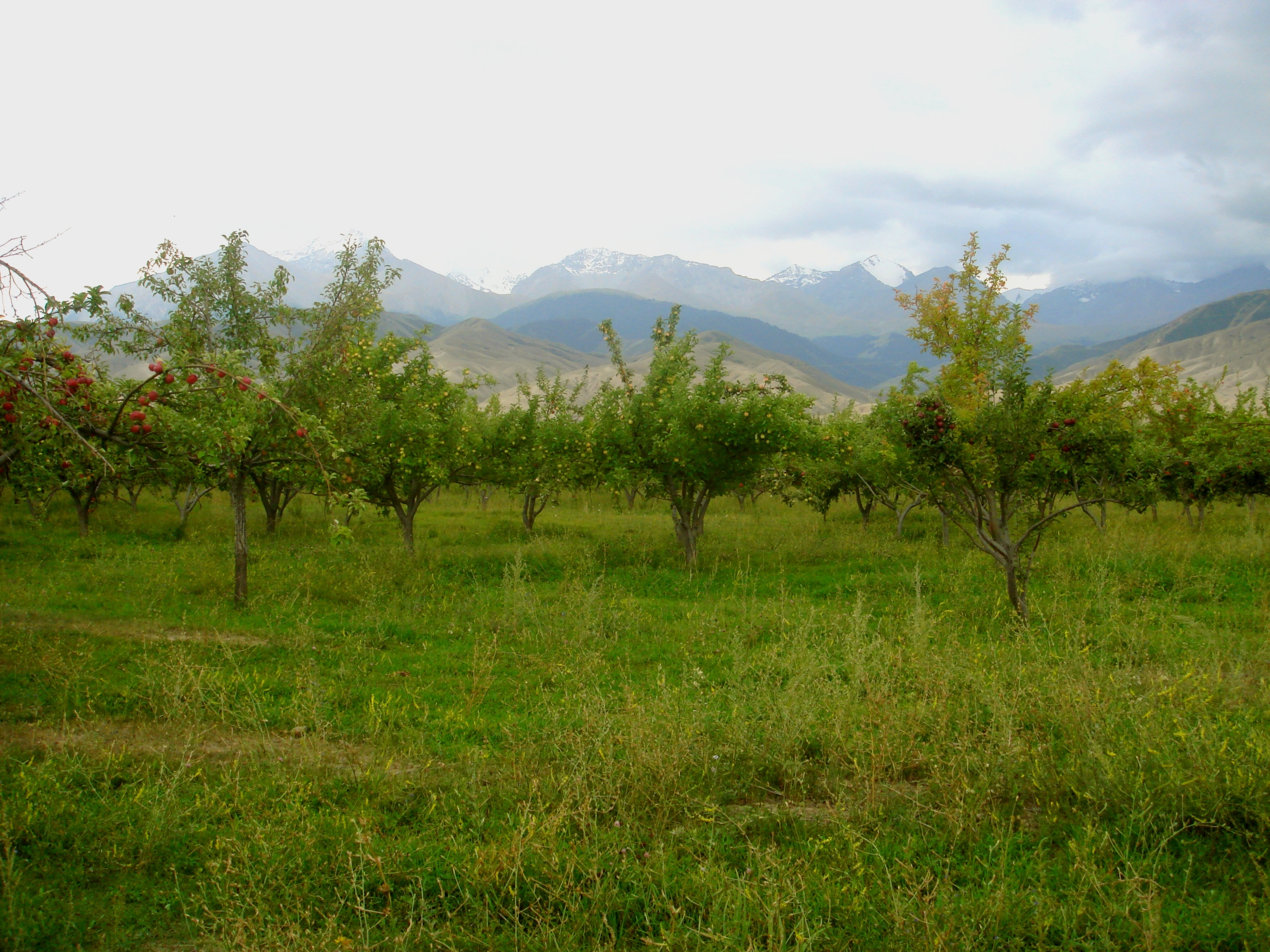 Apple orchard near Tamga (Issyk Kul Province, Kyrgyzstan).